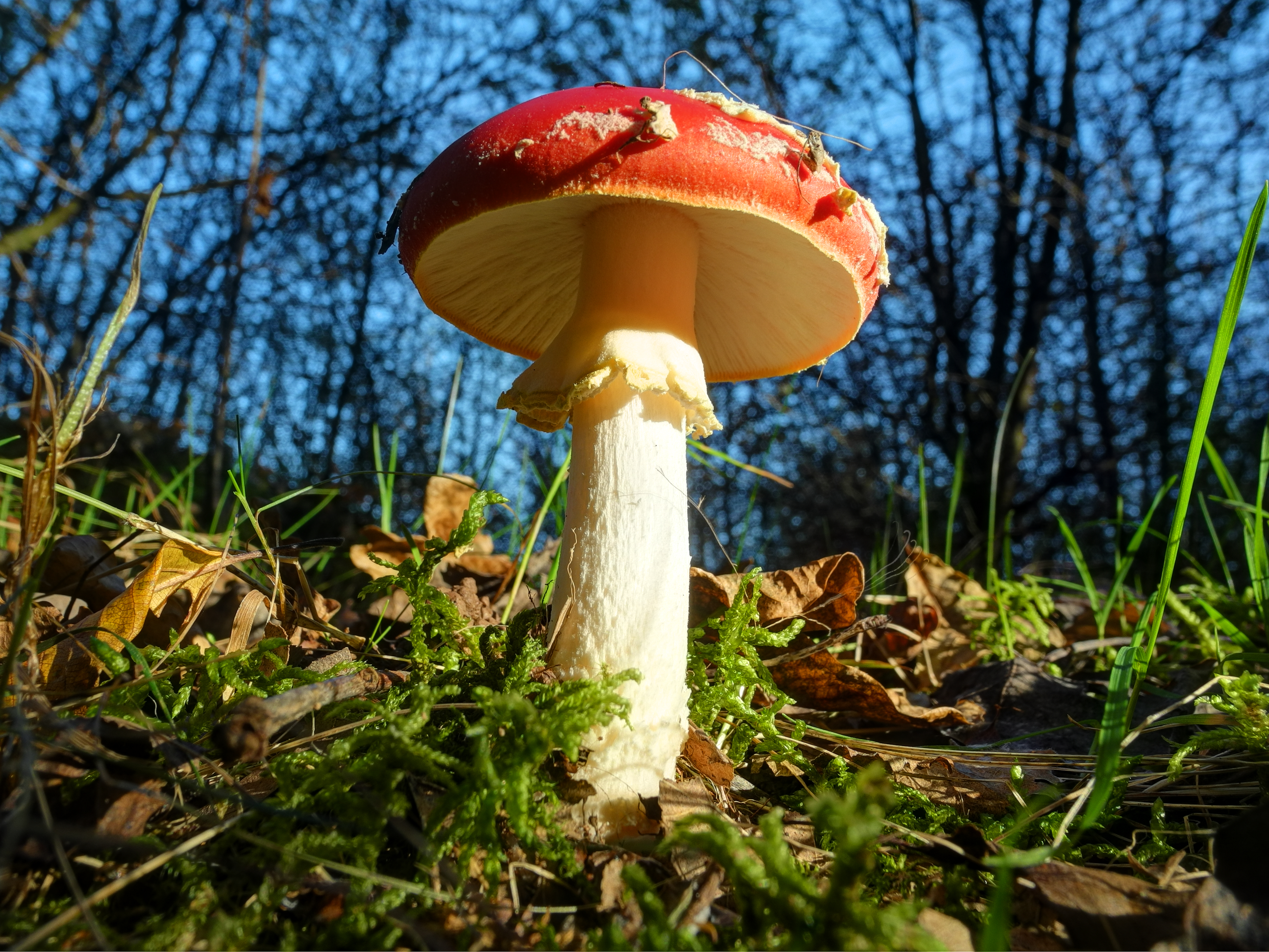 Amanite tue-mouches (Amanita muscaria) (HDR).